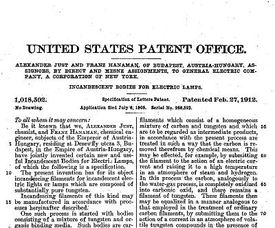 Picture of US Pat No. 1,0118,502, involved in the 1926 US v GE case. The patent is a government publication.